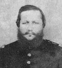 Last picture of Francisco Solano López, 1870.